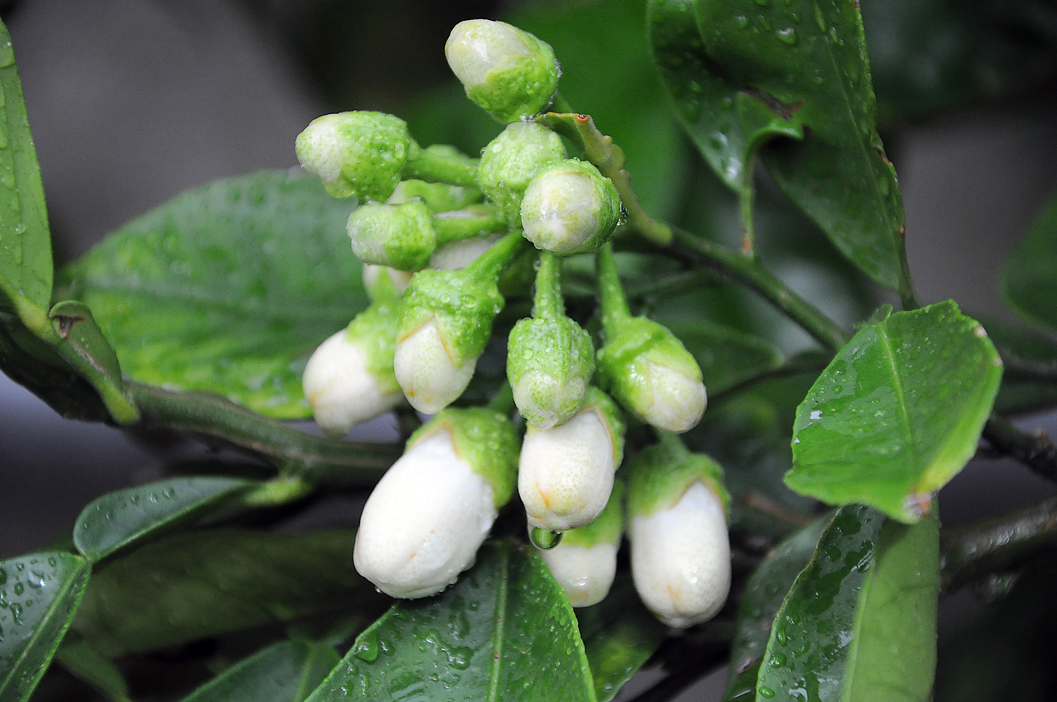 Pomelo